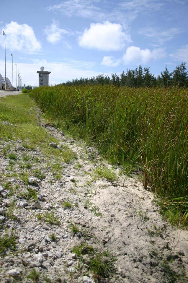 Typical Cattail March on Diego Garcia, British Indian Ocean Territory